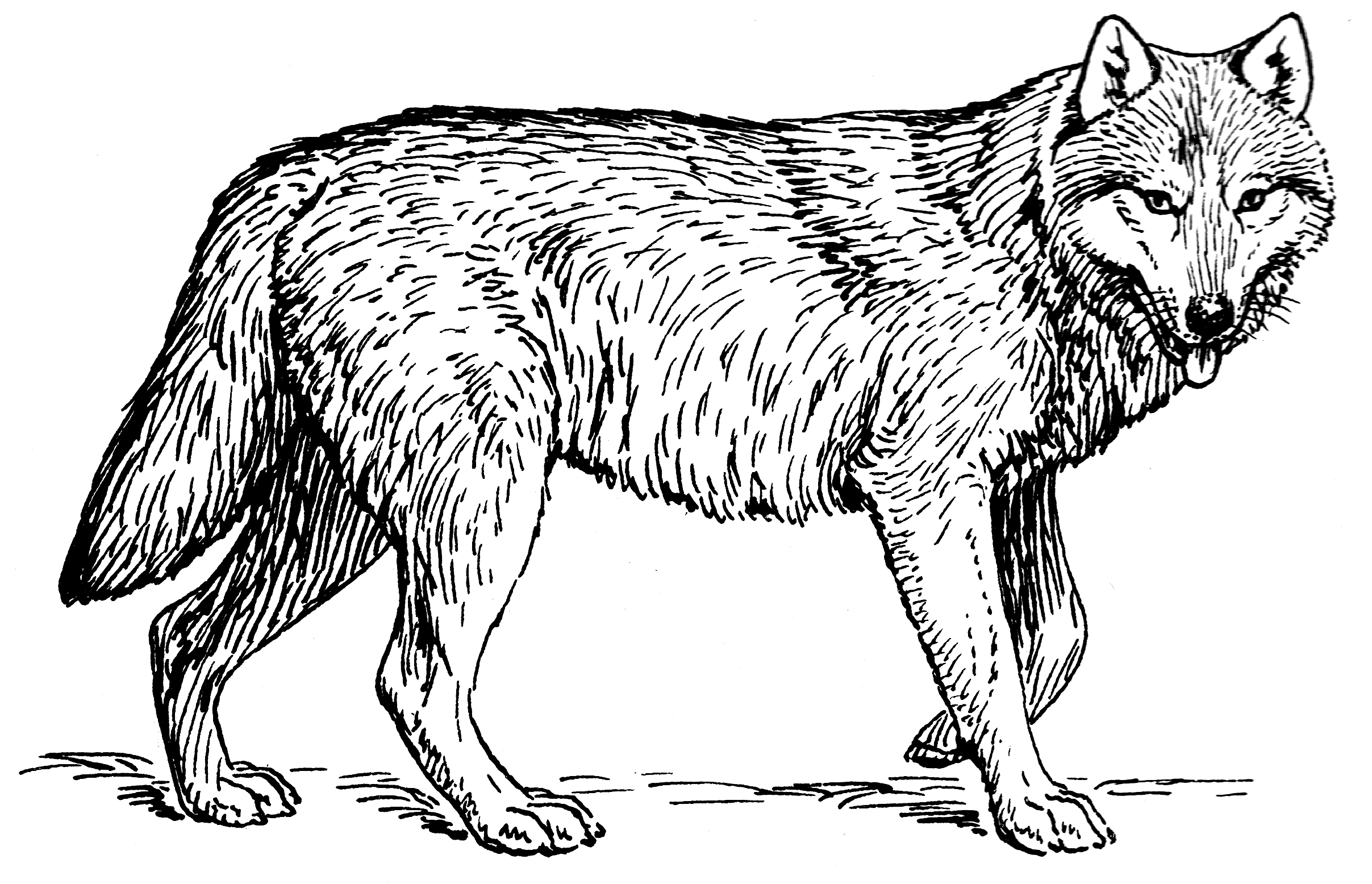 Line art drawing of a wolf.